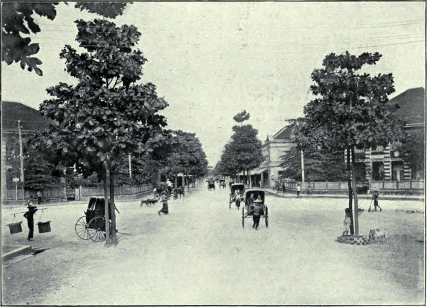 "The city end of New Road" from Twentieth Century Impressions of Siam, p. 245.